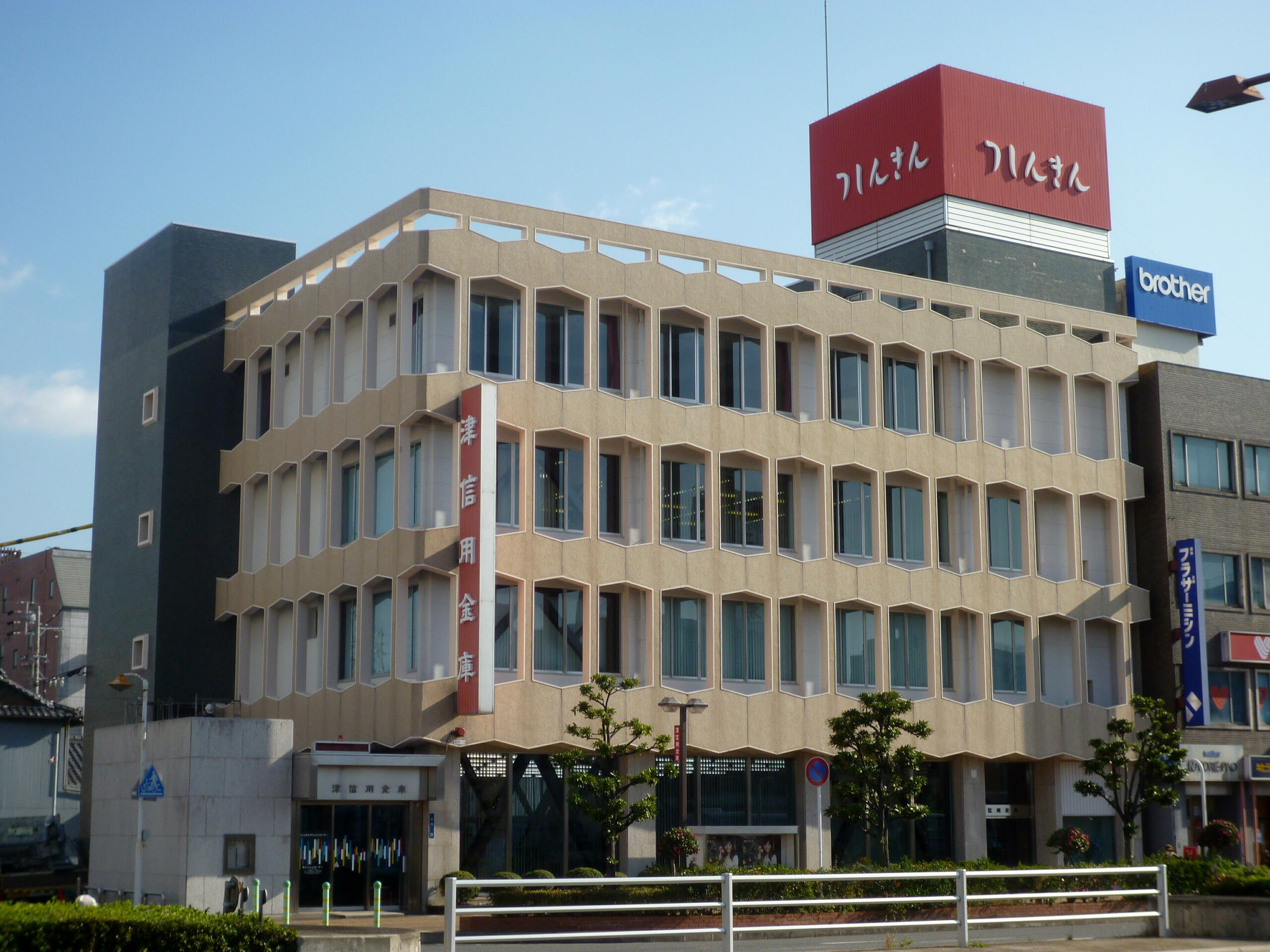 Head Office of The "Tsu Shinkin Bank" in Daimon, Tsu, Mie, Japan.